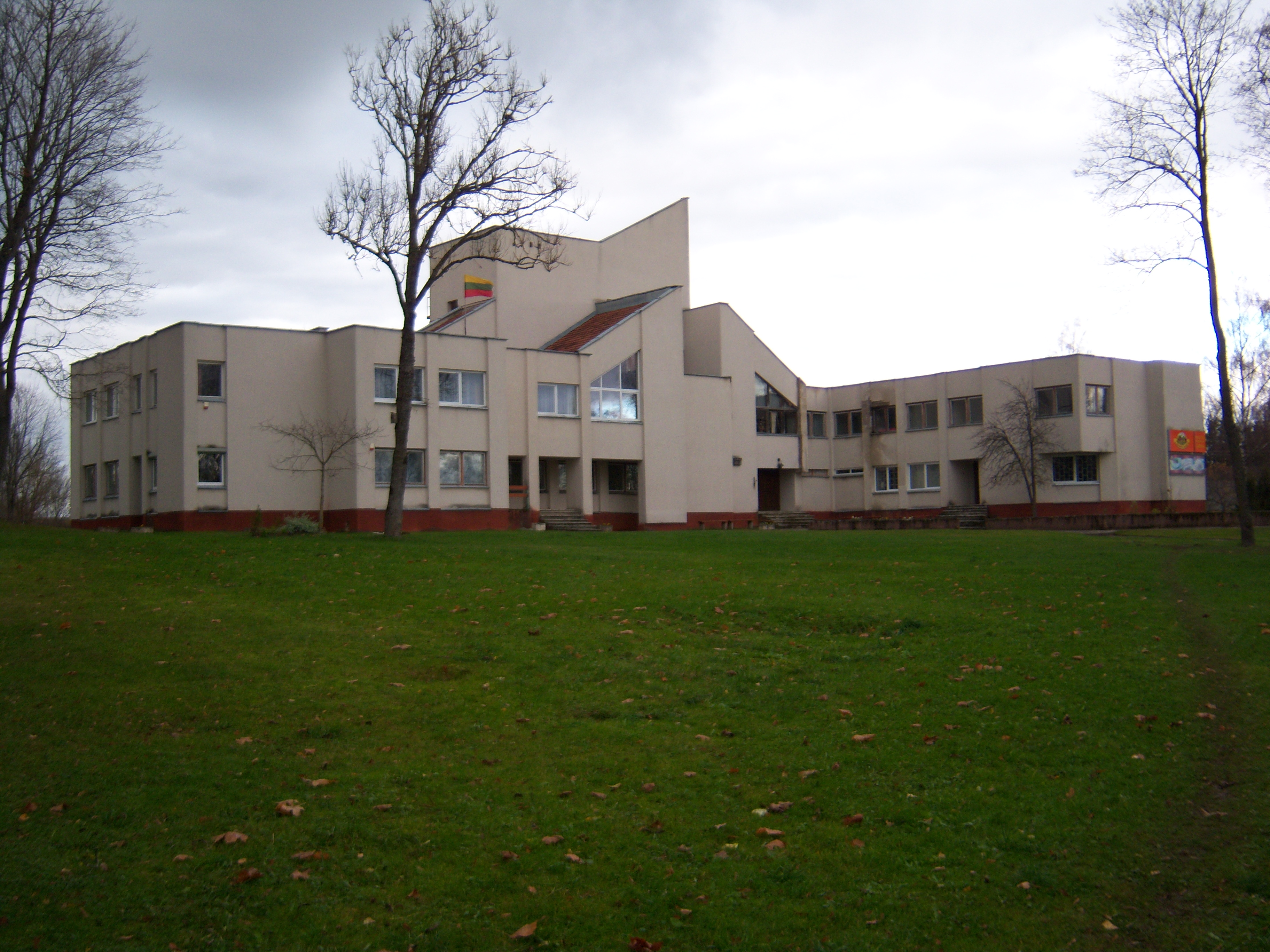 Eldership in Alizava, Kupiškis District, Lithuania